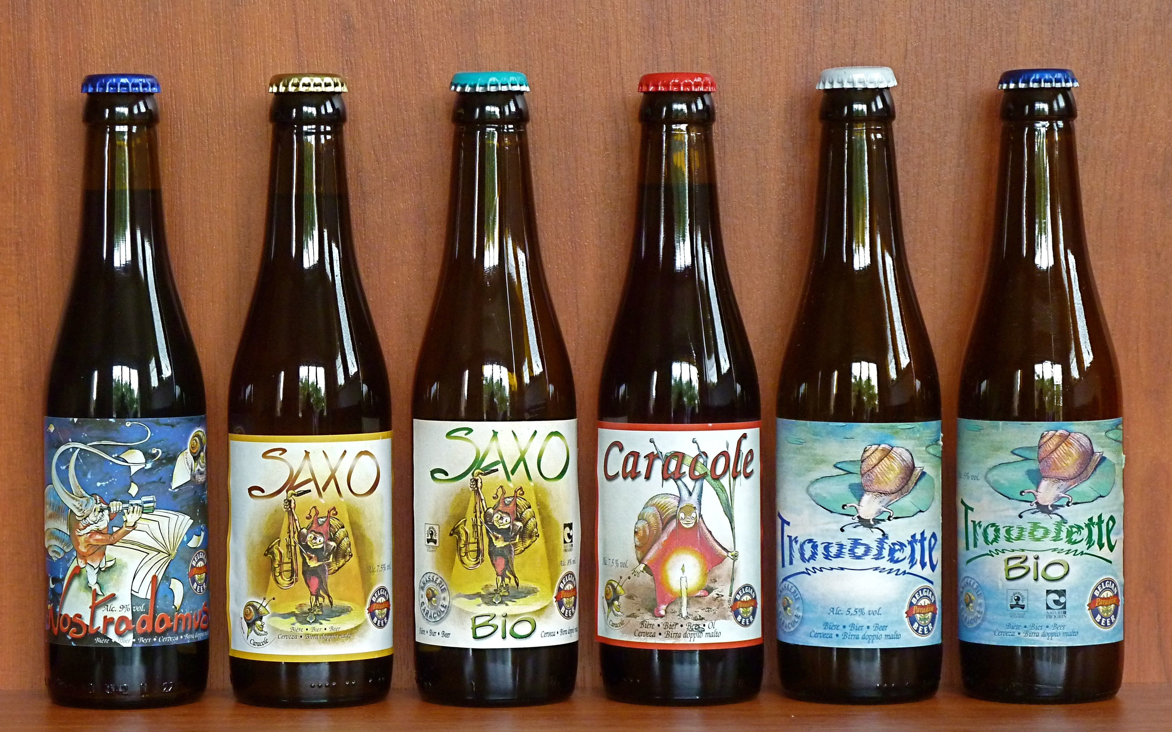 Beers of Brasserie Caracole with two Bio variants